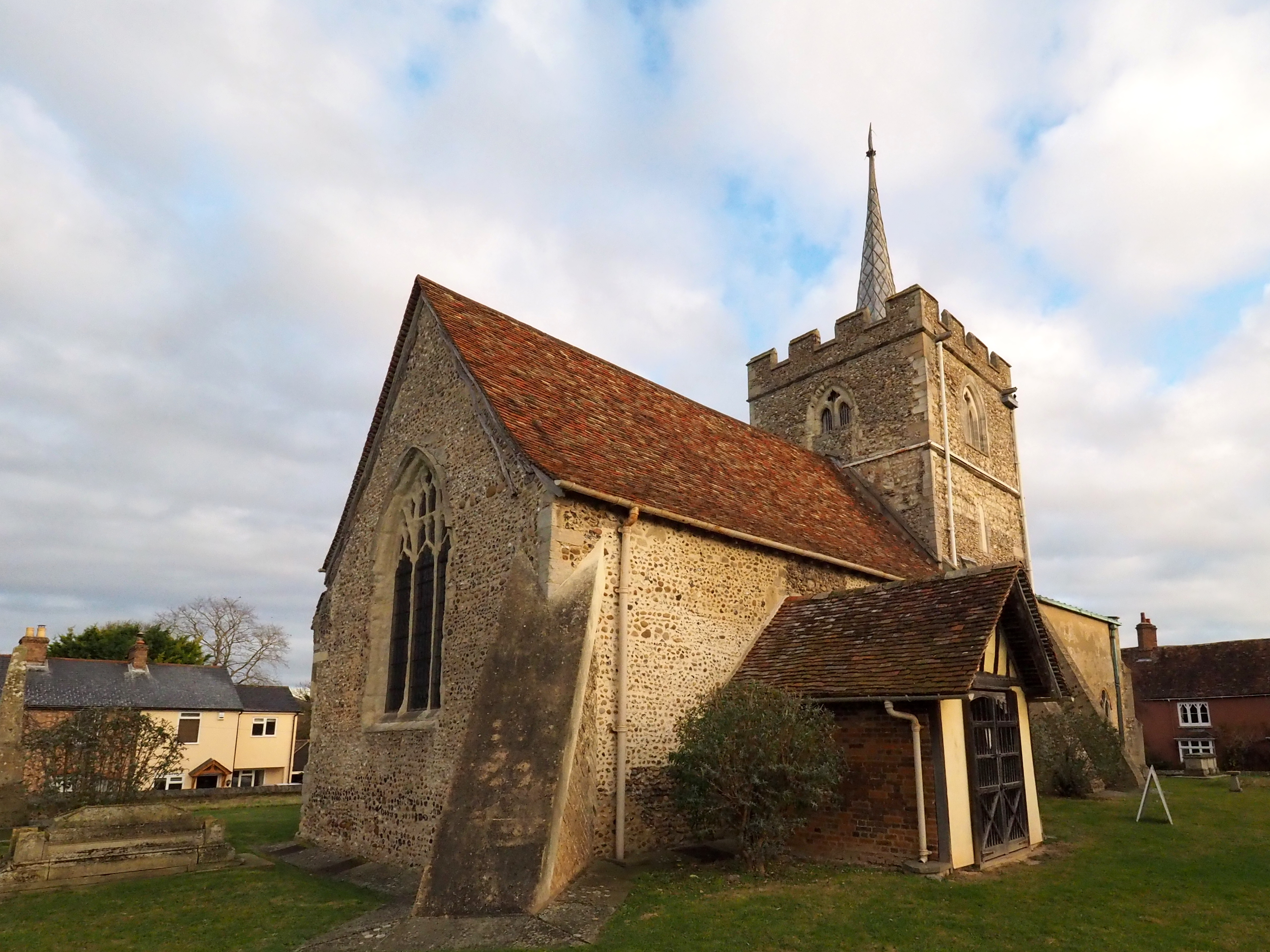 View of the church from the south-west